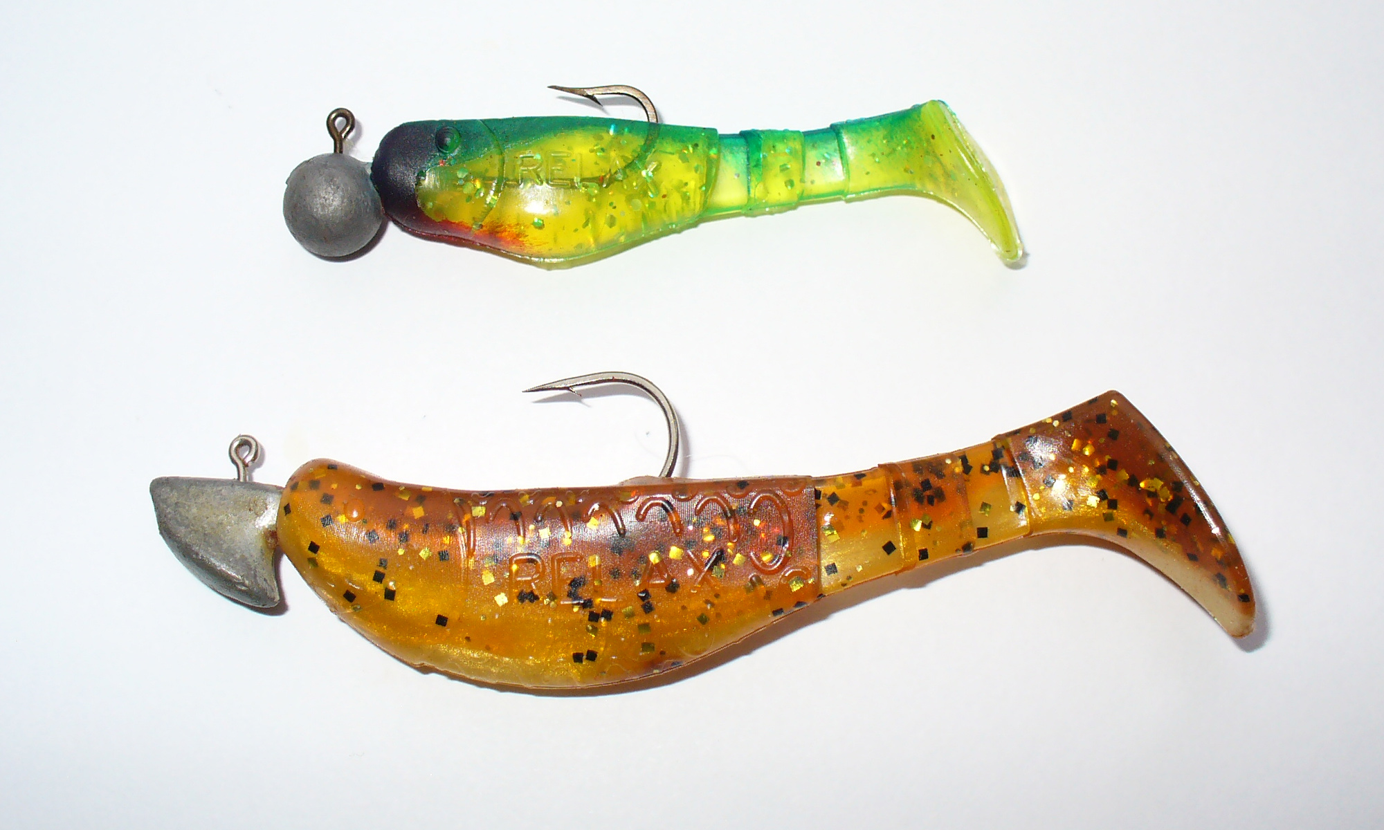 Soft plastic lure (fishing equipment)